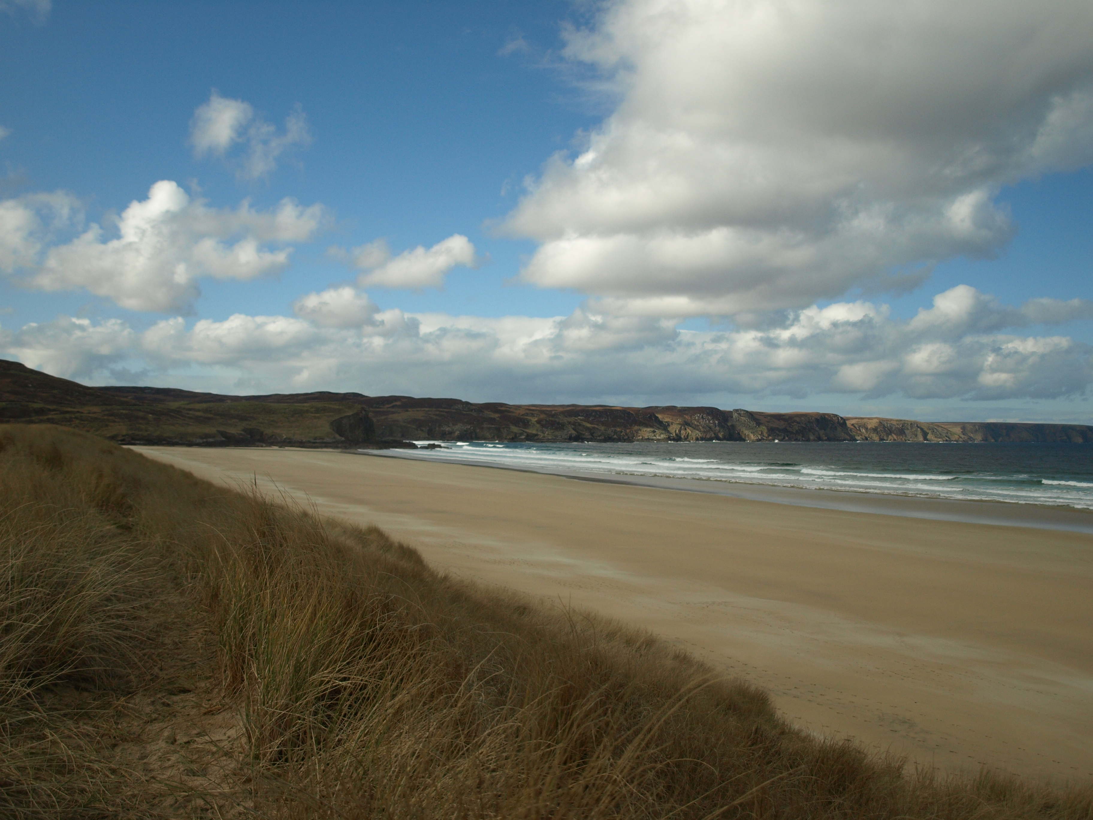 A photo of the Traigh Mor ( Gaelic for big beach ) of North Tolsta looking north east from the dunes.